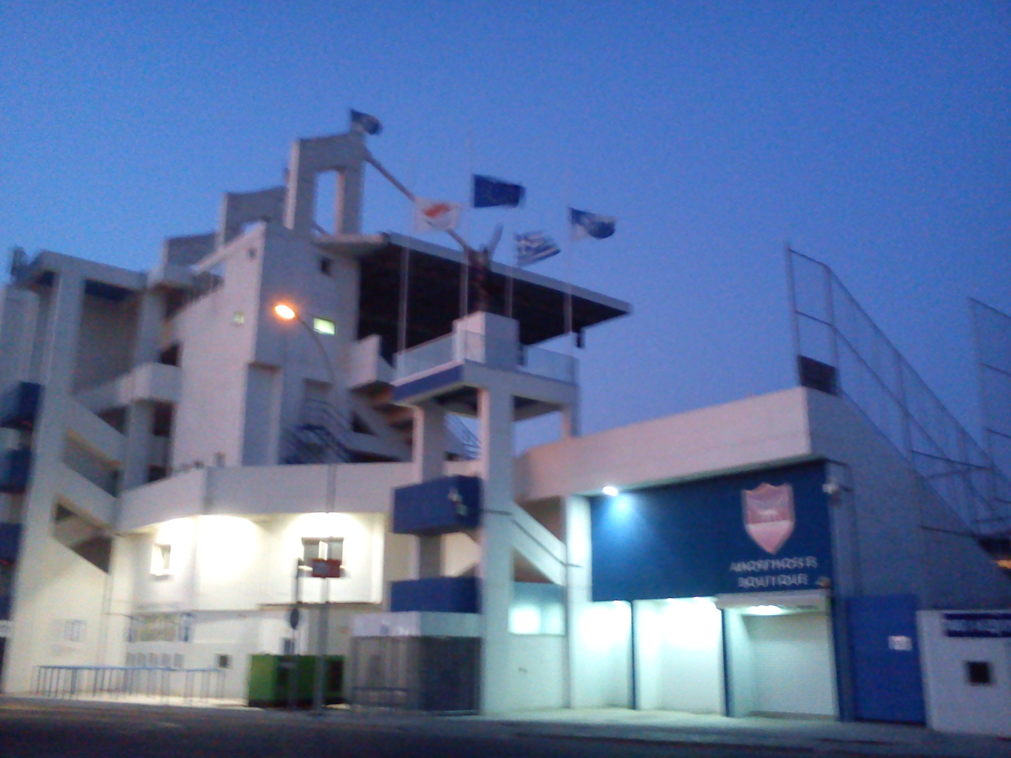 The stadium in the evening of 16th of July, 2011. The four flags are flying at half-mast in a sign of mourning because of the power plant explosion in Mari that killed thirteen individuals.